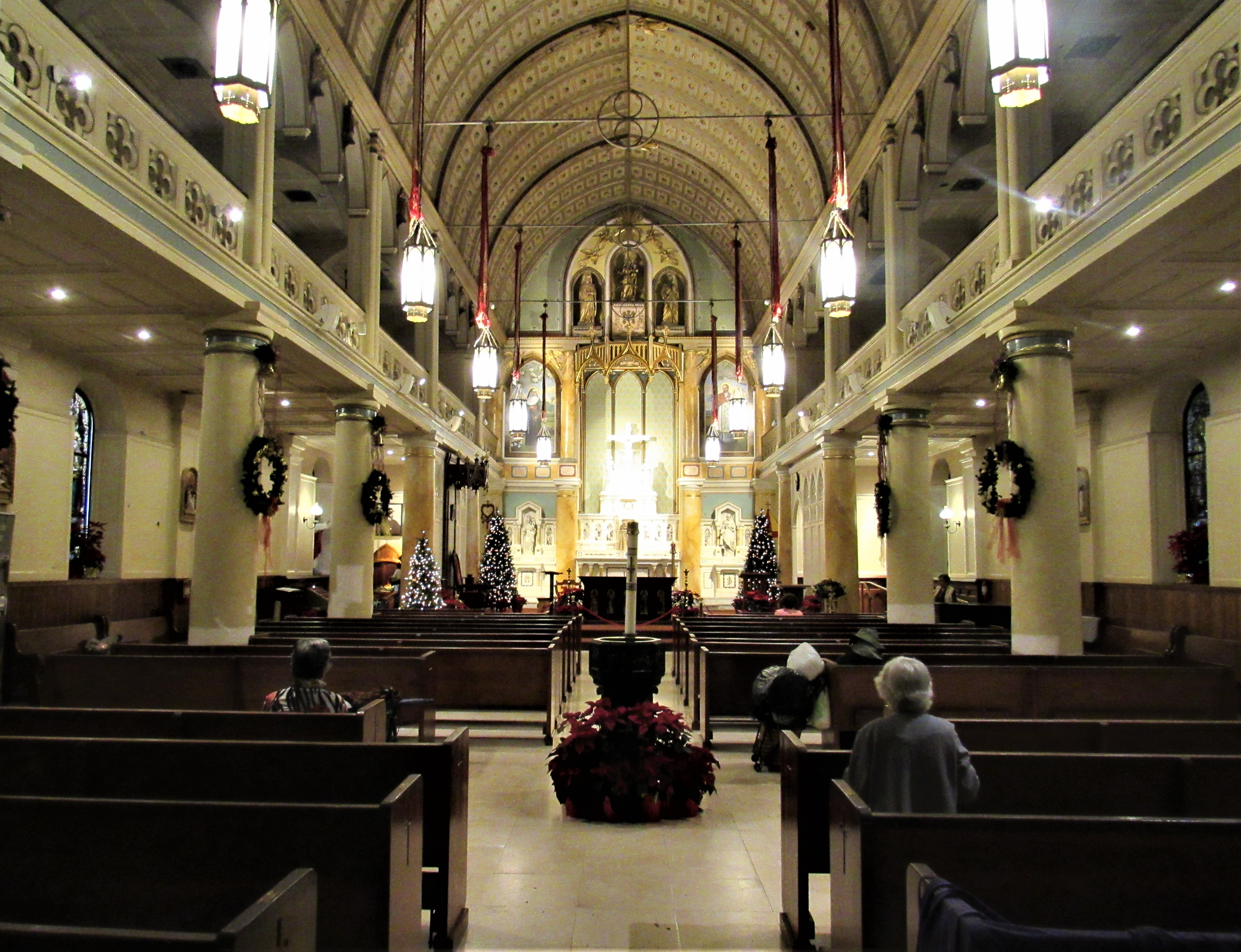 Interior of the Cathedral Basilica of Our Lady of Peace, Honolulu, Hawaii